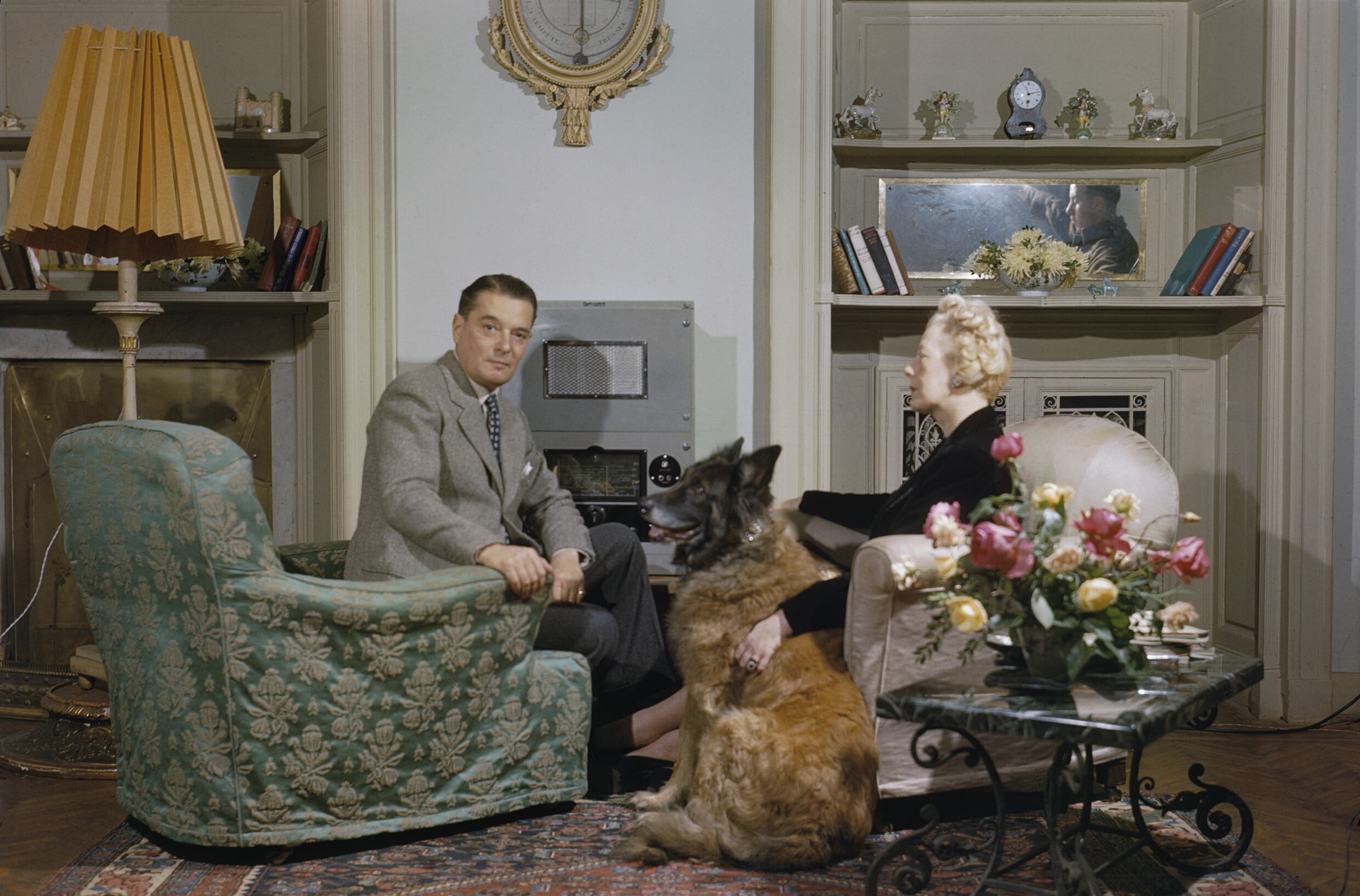 The British Ambassador To Italy, 12 December 1944 The British Ambassador to Italy, Sir Noel Charles and Lady Charles, listen to the nine o'clock news from London on the radio at the British Embassy in Rome with their pet dog.